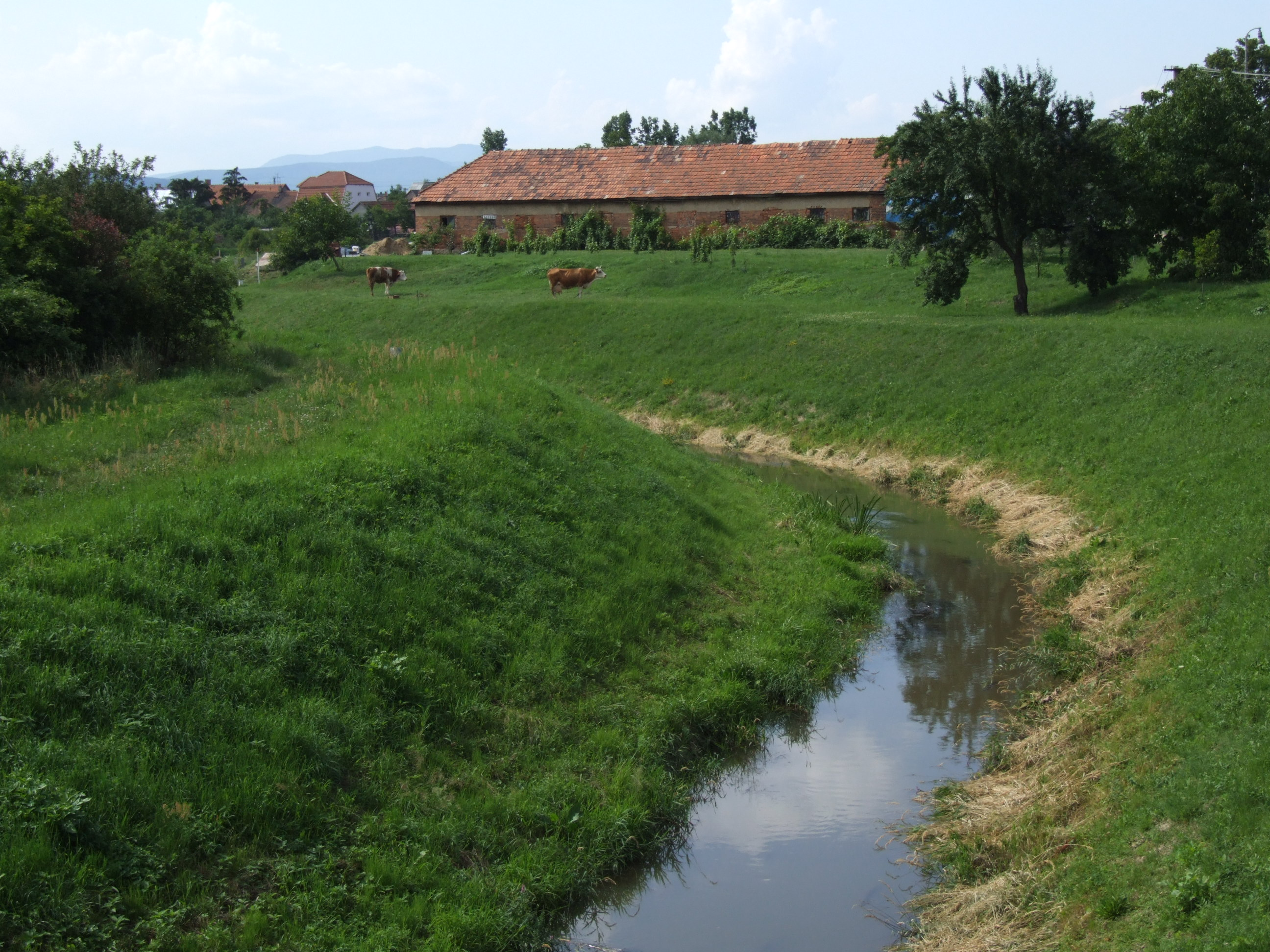 Sátoraljaújhely - Slovenské Nové Mesto - border between Hungary and Slovakia